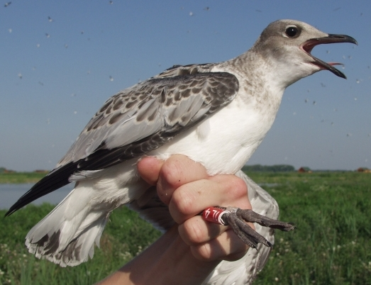 Ringing of a young mediterranean gull, Nyirkai-Hany, Hungary